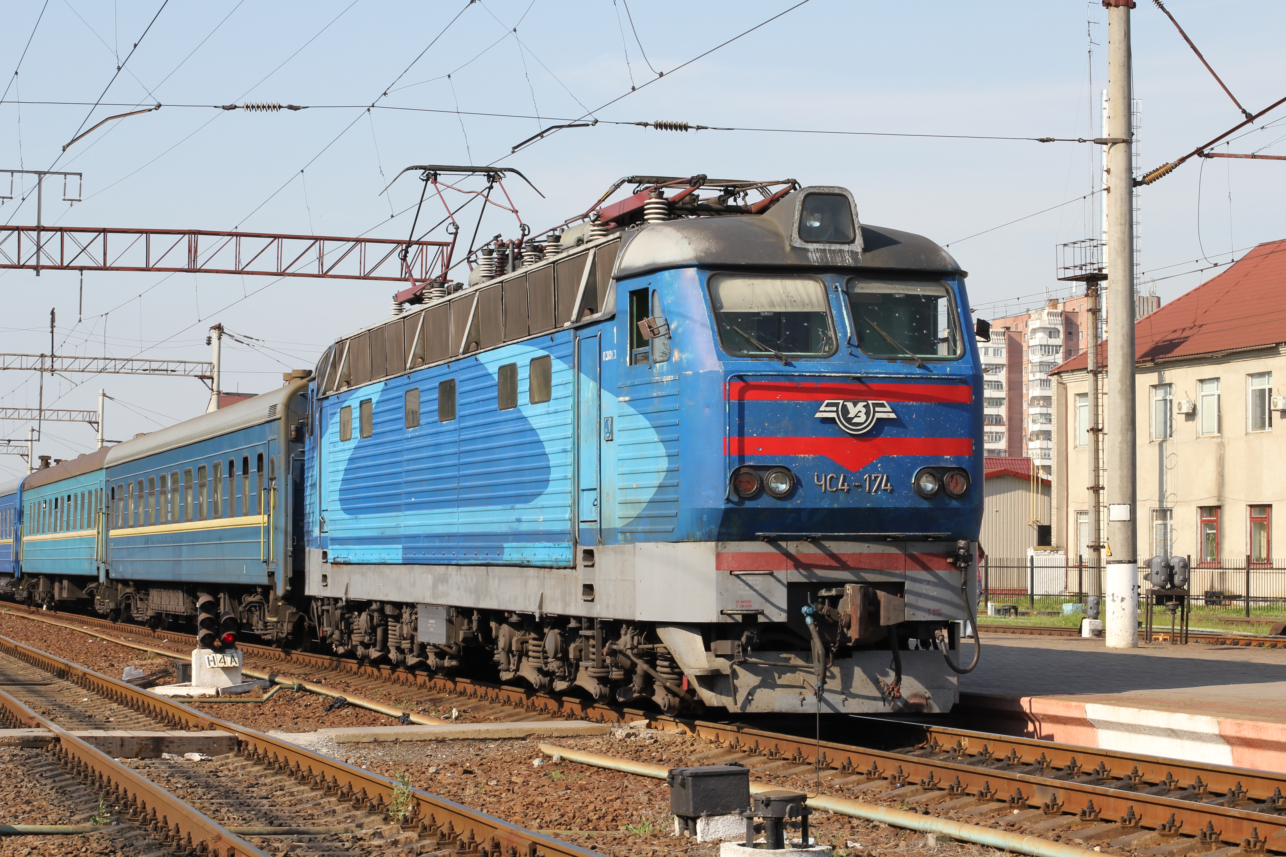 Electric locomotive Škoda ChS4-174 with new metal car body after heavy locomotive overhaul. This locomotive has been made in October 1970. Vinnitsa railway station.